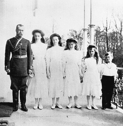 Tsar Nicholas II with his children on the balcony of the Alexander Palace.